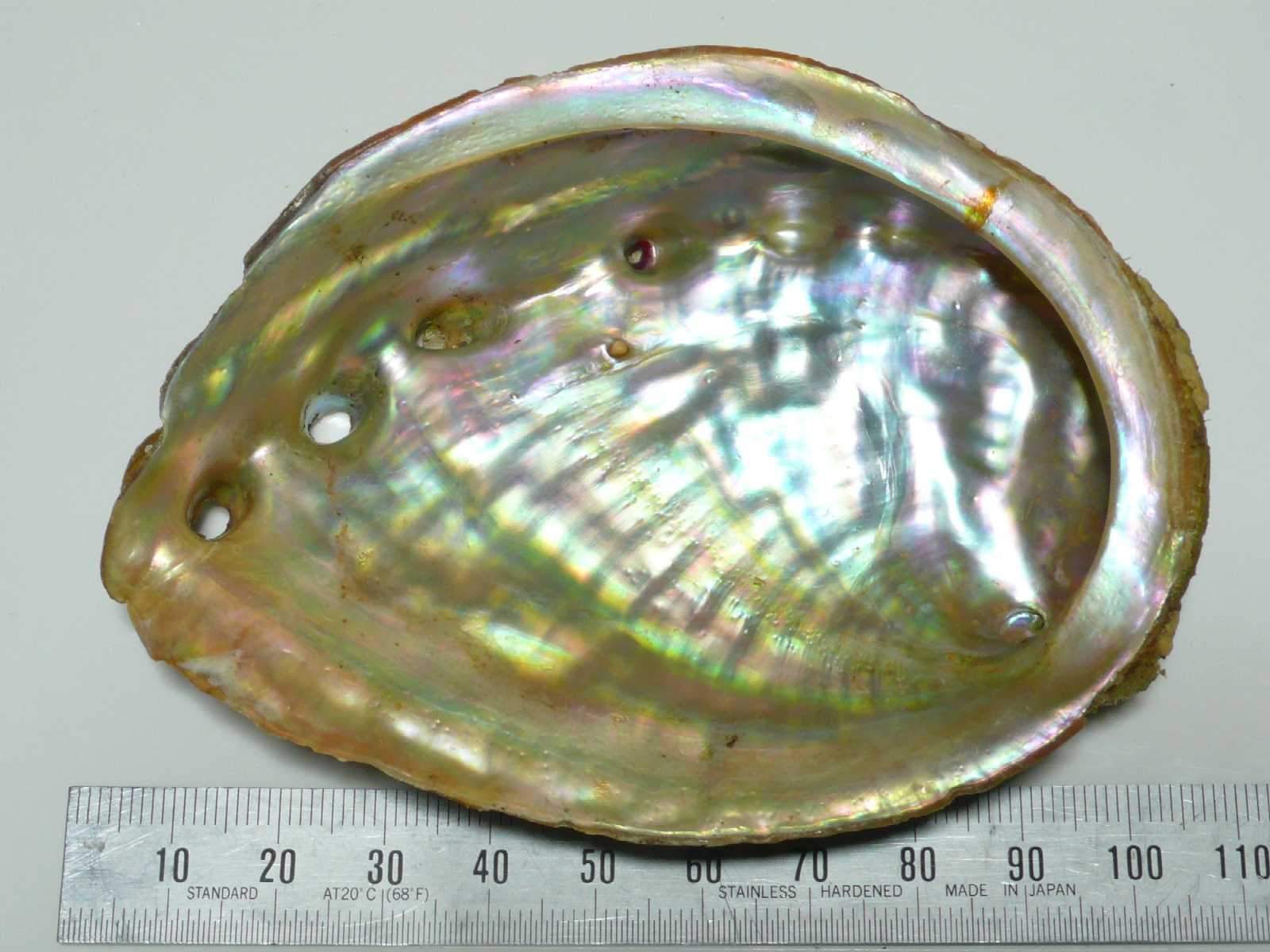 A shell of an abalone which was landed at Toba city in Japan.